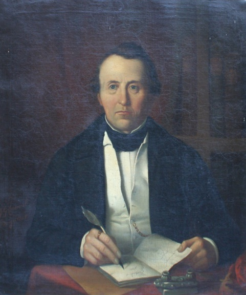 Portrait of the author Pieter Lansens, painted in 1848 by Joseph Canneel